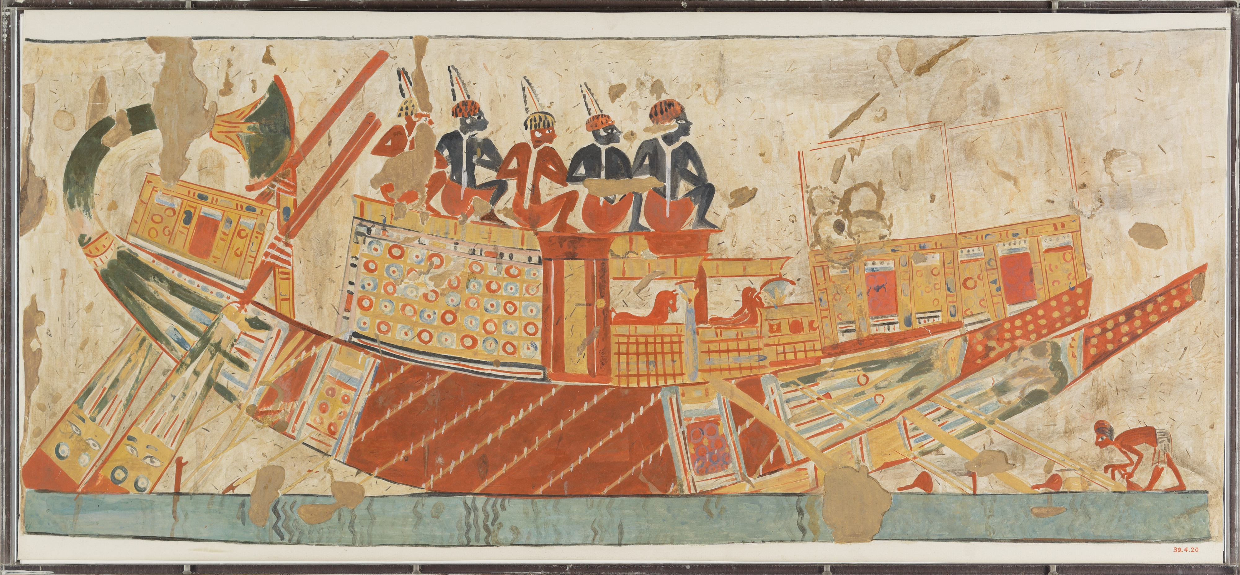 Facsimile, Amenhotep Huy (TT 40), boat, Nubians